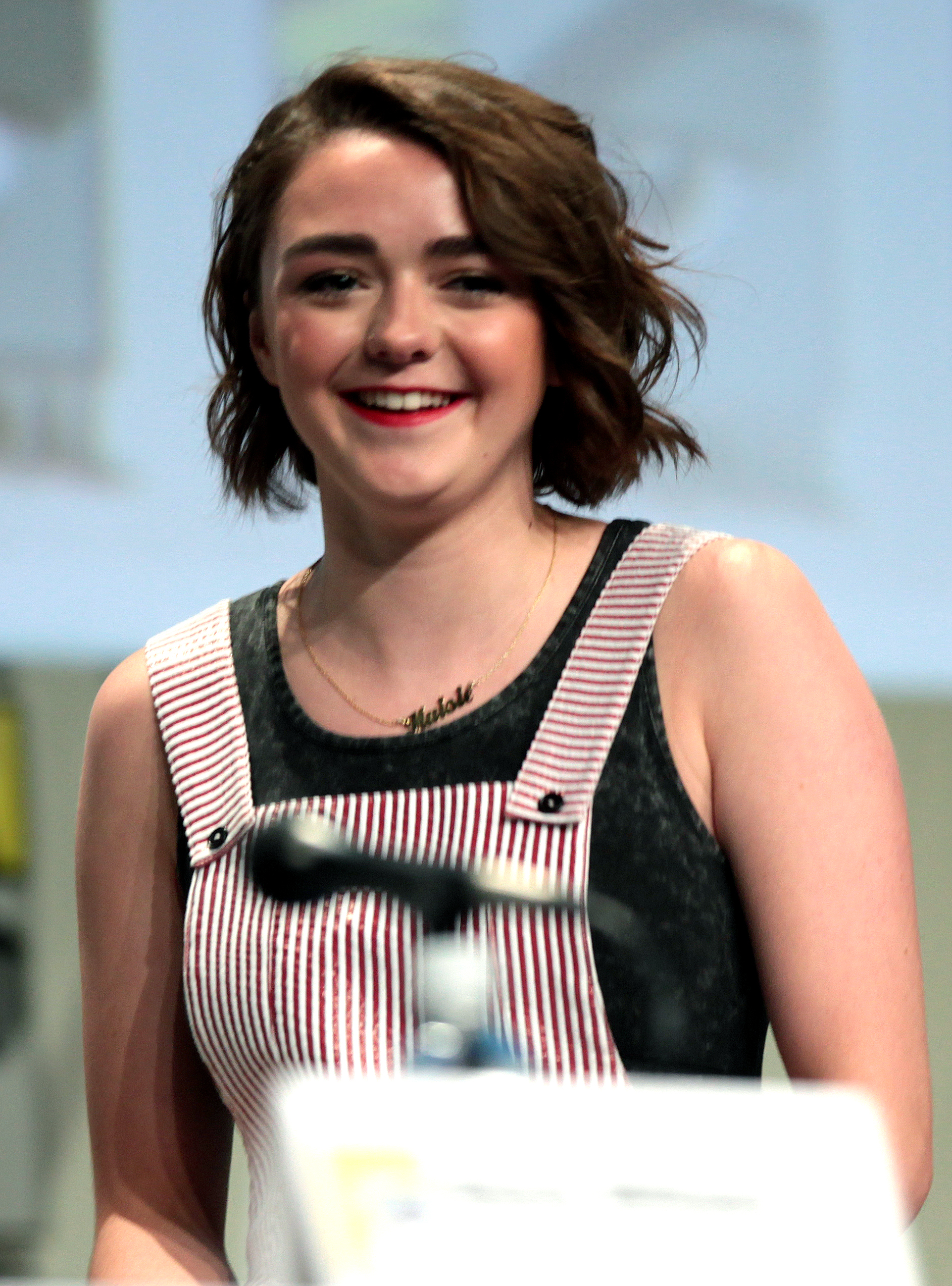 Maisie Williams at the 2014 San Diego Comic-Con International.